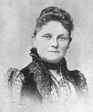 née Mary Mathews; Mary Mathews Smith (1869); Mary Mathews Barnes (1883); Mary Mathews Adams (1890)